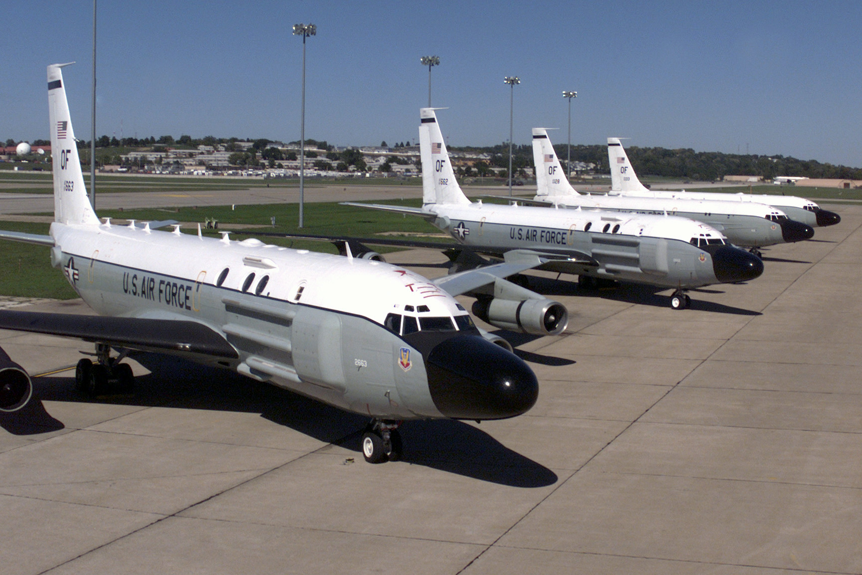 The 45th Reconnaissance Squadron's RC-135 Cobra Ball are brought together on the flightline at Offutt Air Force Base, Nebraska. These aircraft are rarely seen in the same place at the same time due to its worldwide reconnaissance missions. Location: OFFUTT AIR FORCE BASE, NEBRASKA (NE) UNITED STATES OF AMERICA (USA)